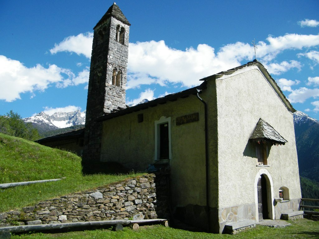 Facade. Church of St. Clemens. Vezza d'Oglio, Val Camonica